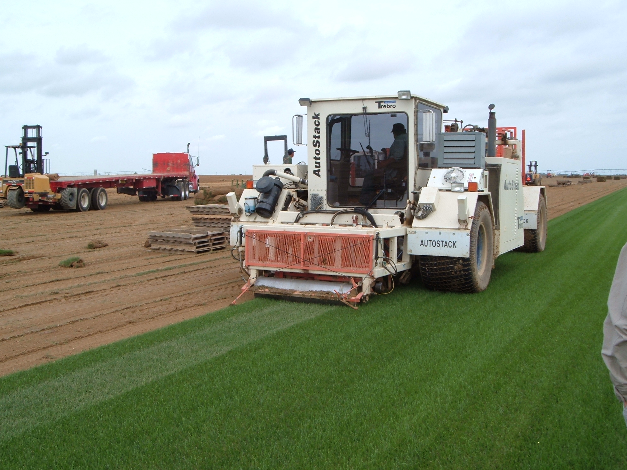 Trebro AutoStack turf harvester on a sod farm field